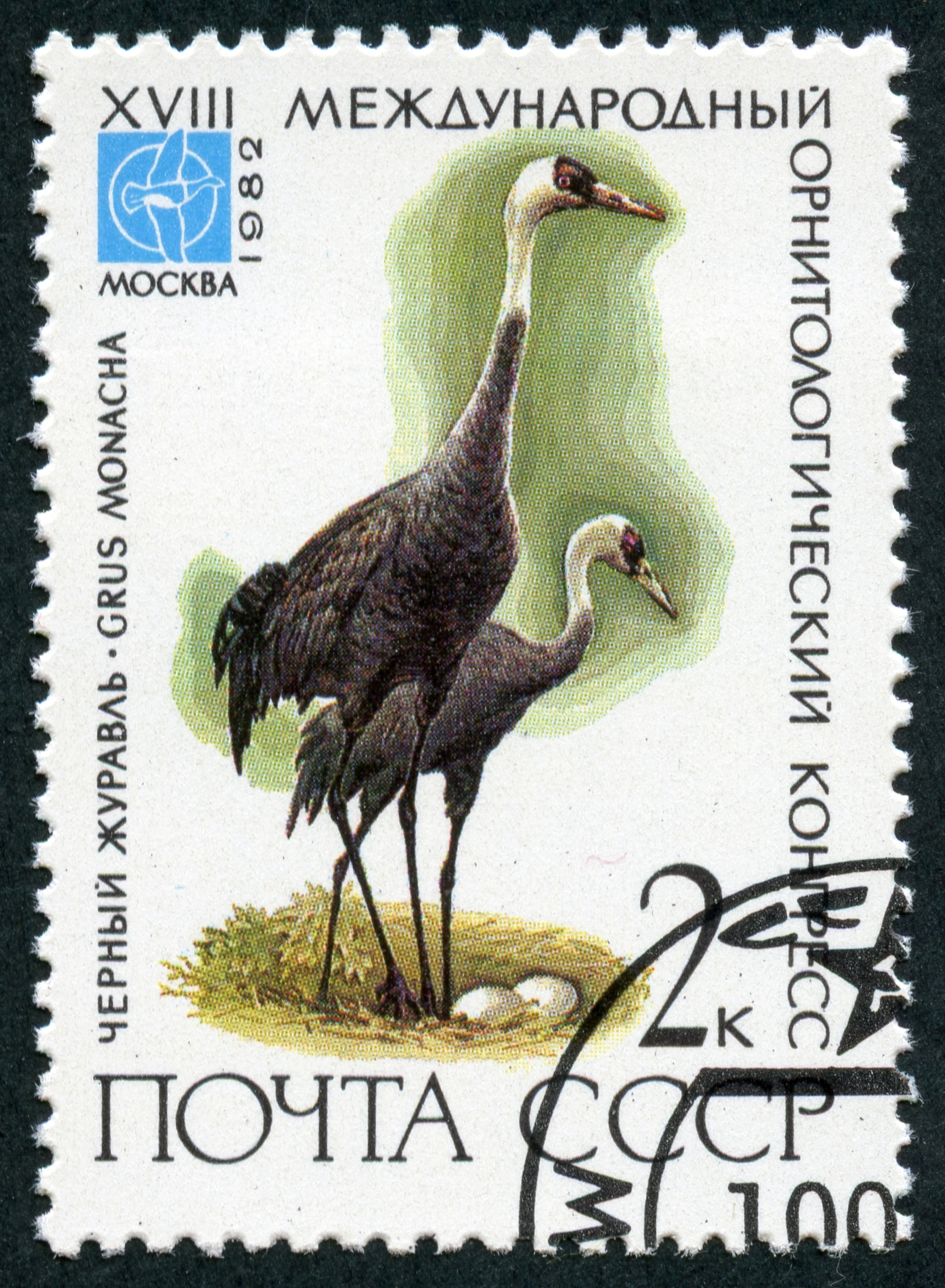 A USSR stamp